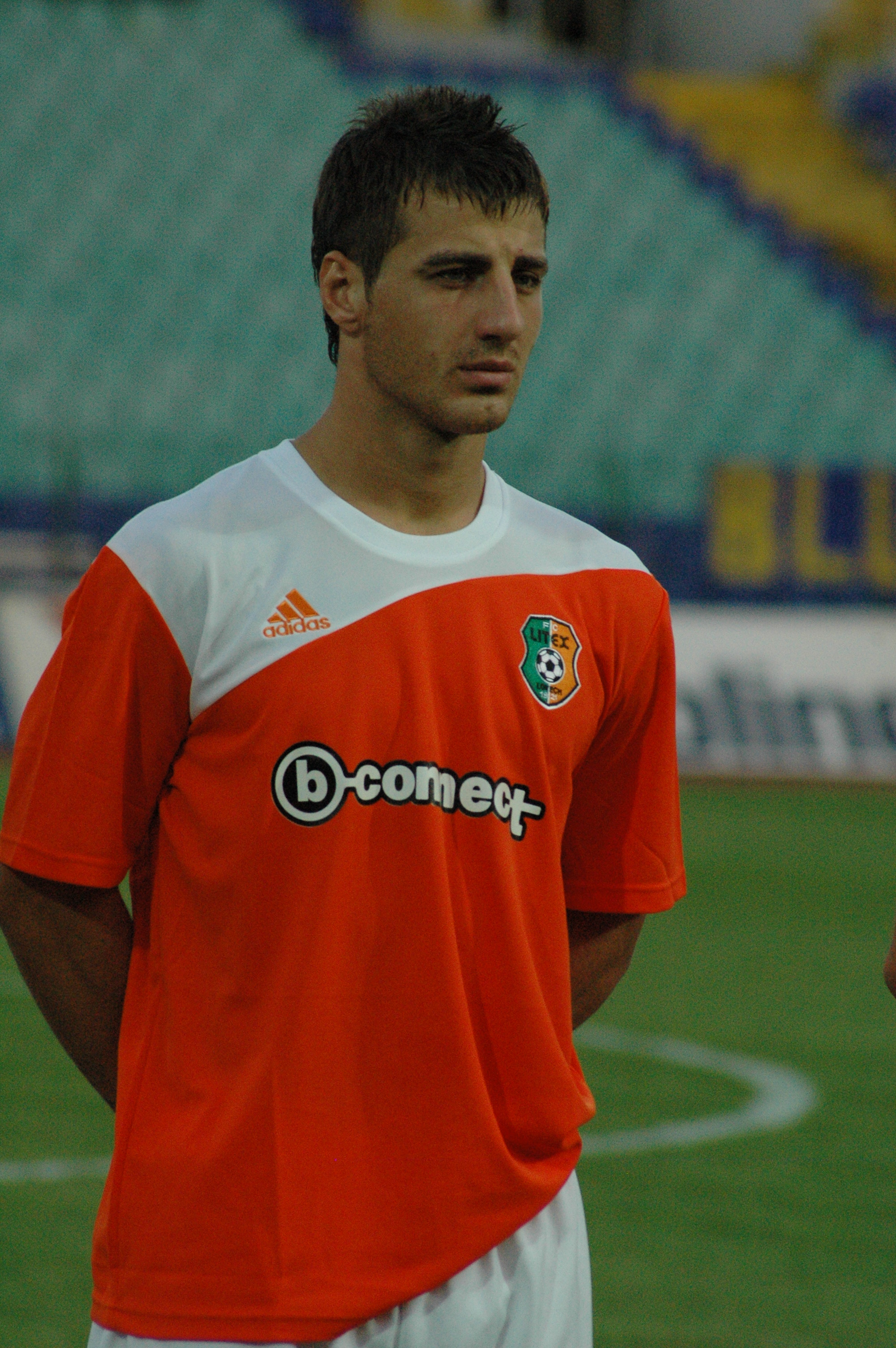 Nikolay Bodurov